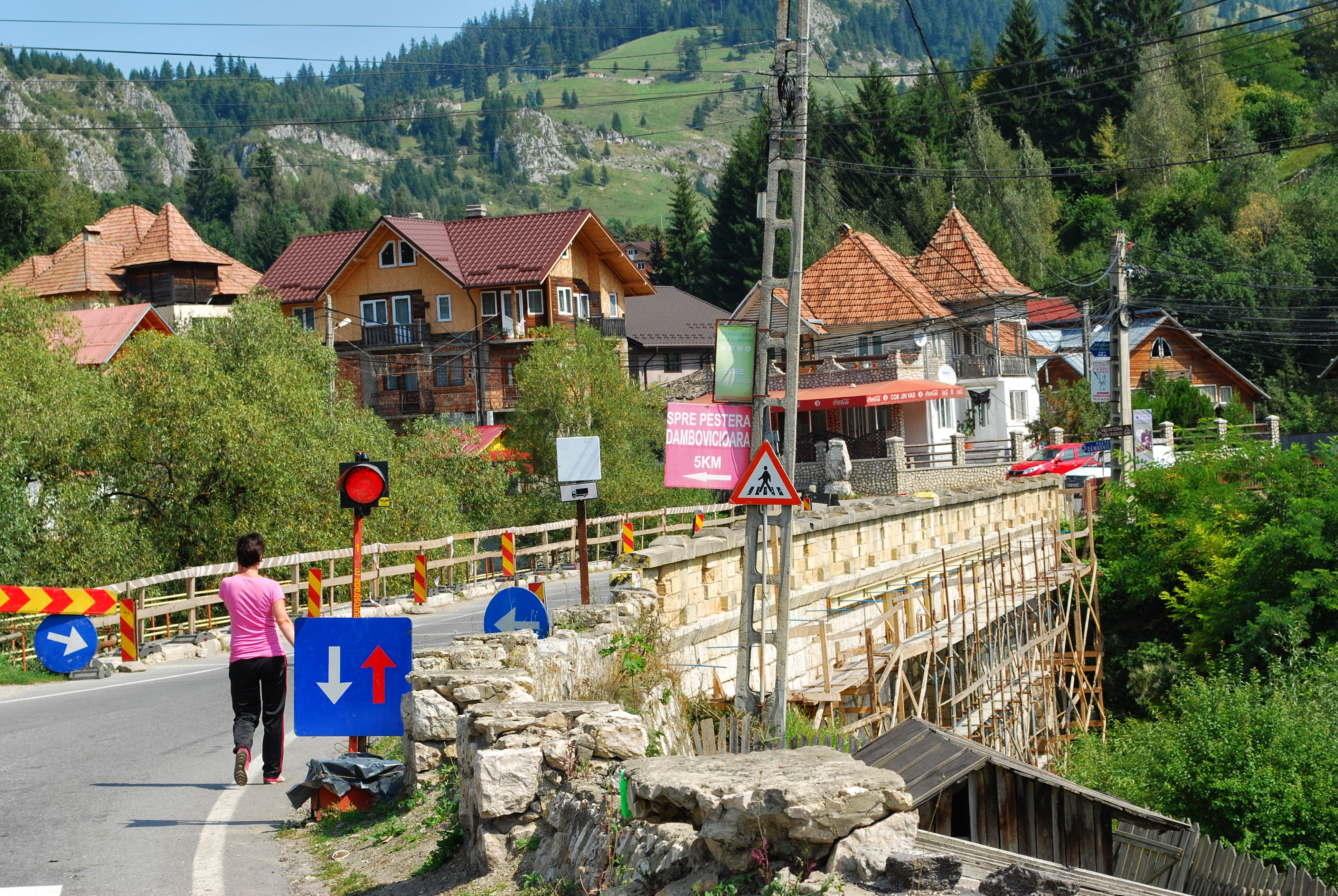 "Brâncoveanu Bridge" in Podu Dâmboviței, Argeș County, RomaniaRomână: Podul lui Brâncoveanu din Podu Dâmboviței, județul Argeș, România